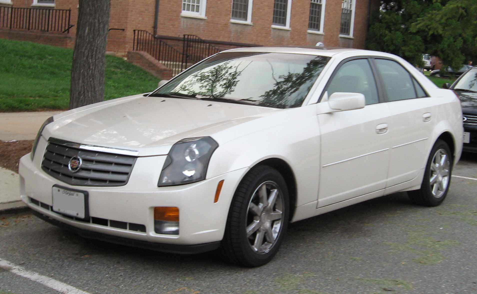 2003-2007 Cadillac CTS photographed in College Park, Maryland, USA.